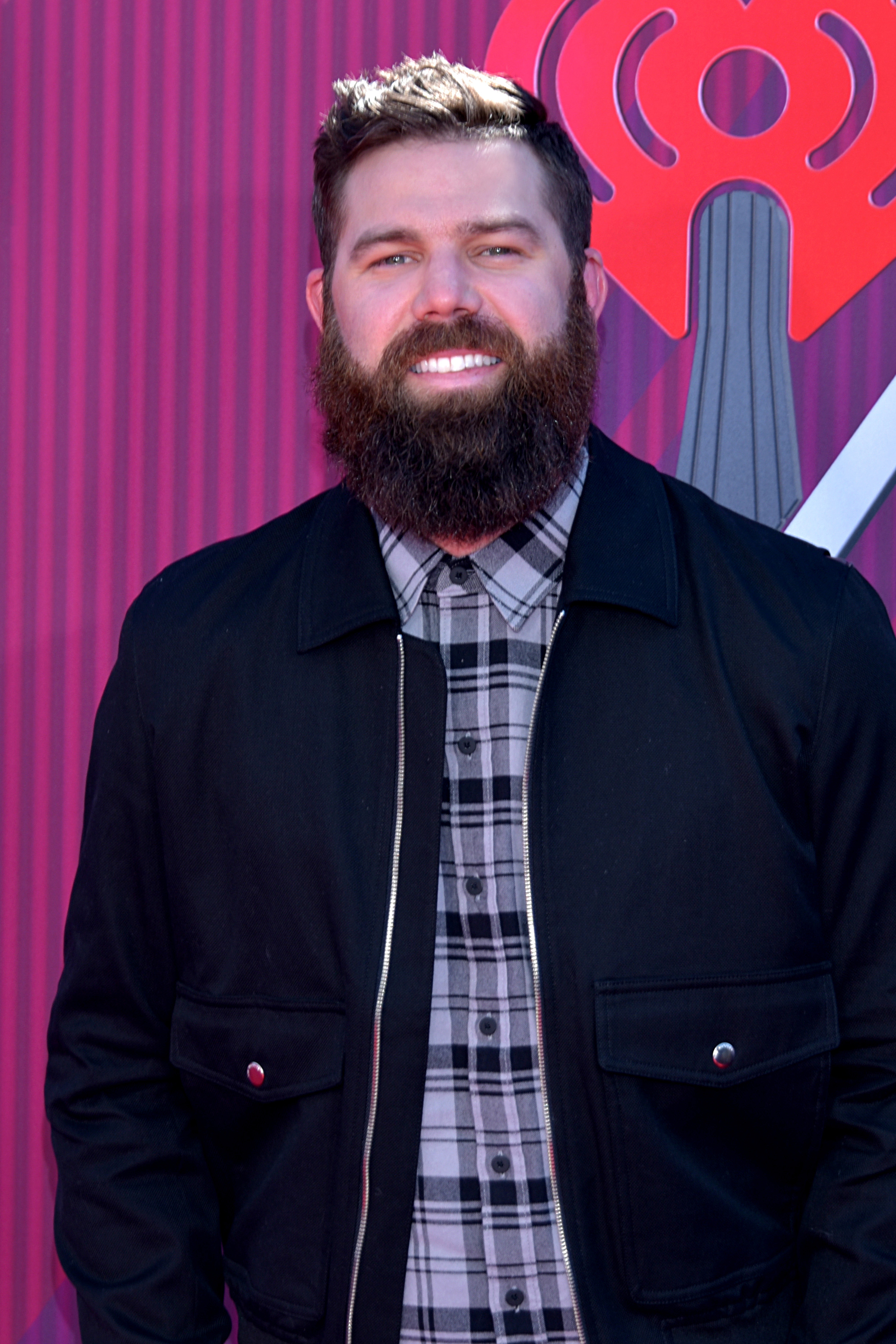 Jordan Davis arrives for the 2019 iHeartRadio Music Awards in Los Angeles California - Photo by Glenn Francis of